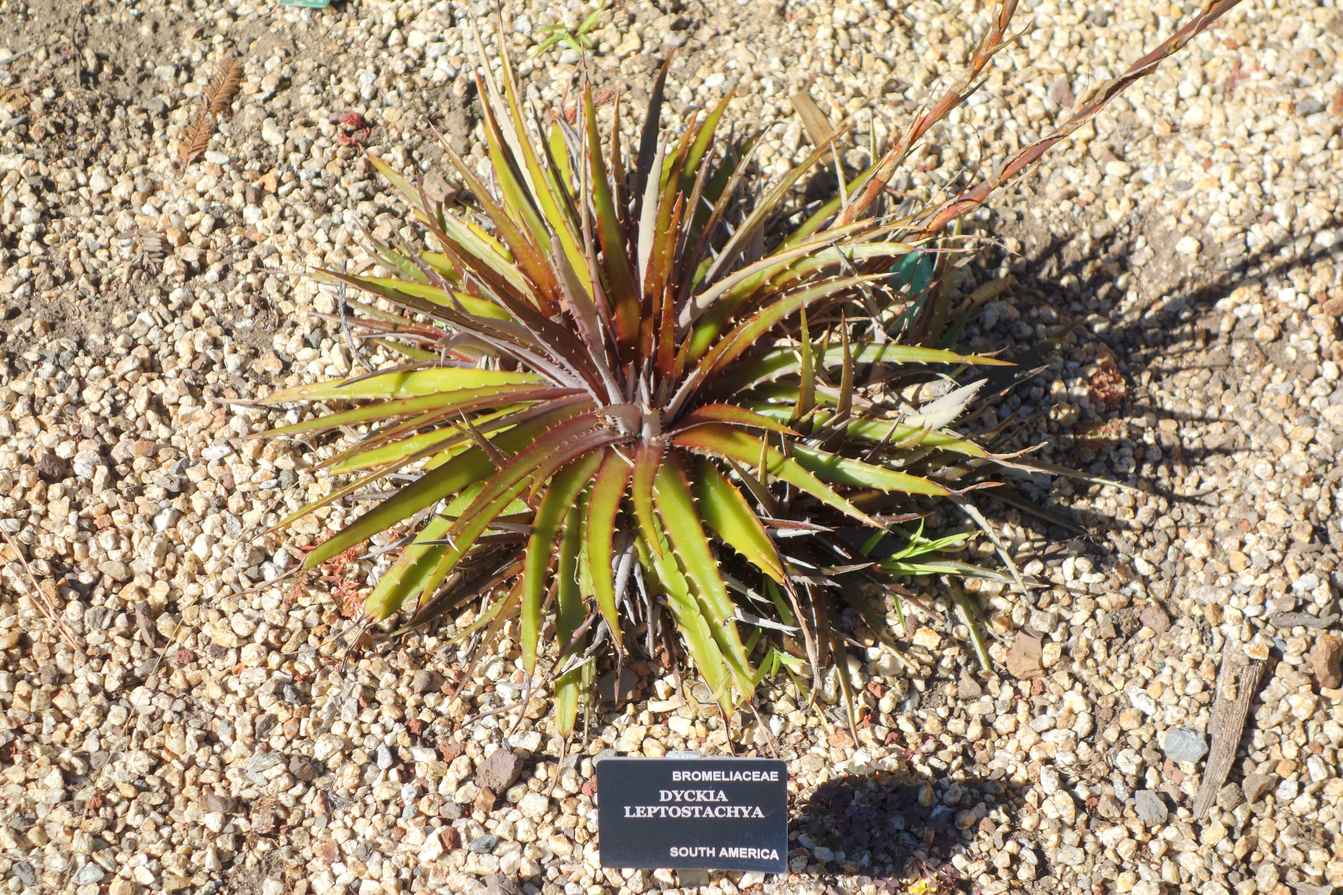 Botanical specimen in the San Francisco Botanical Garden, San Francisco, California, USA.